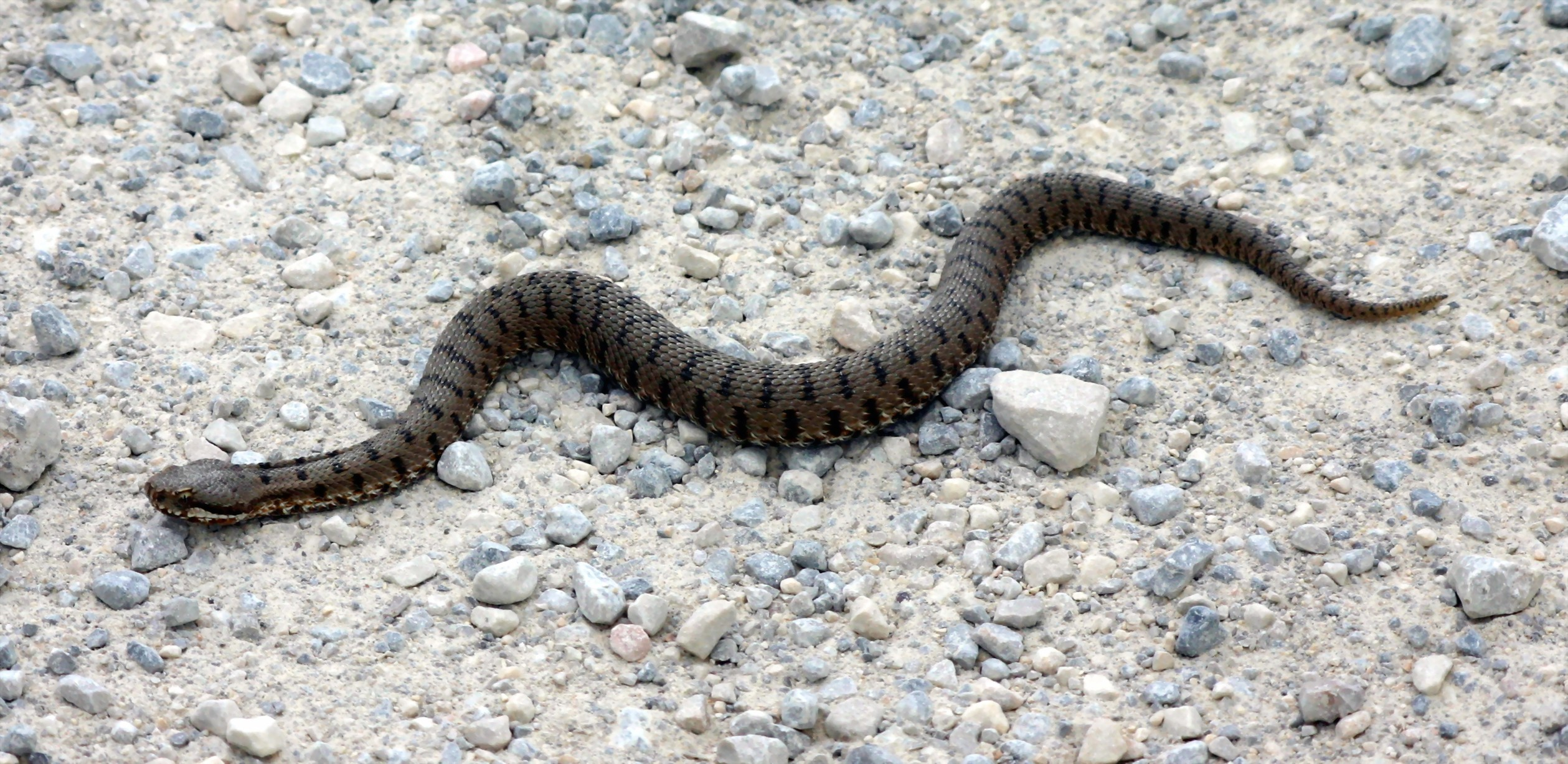 Toskana, Umgebung von Pienza, 15.05.2005. Considering the appearance of this specimen and the location at which the picture was taken (Pienza is 43°04′43″N, 11°40′44″E), this is likely an example of V. a. francisciredi.